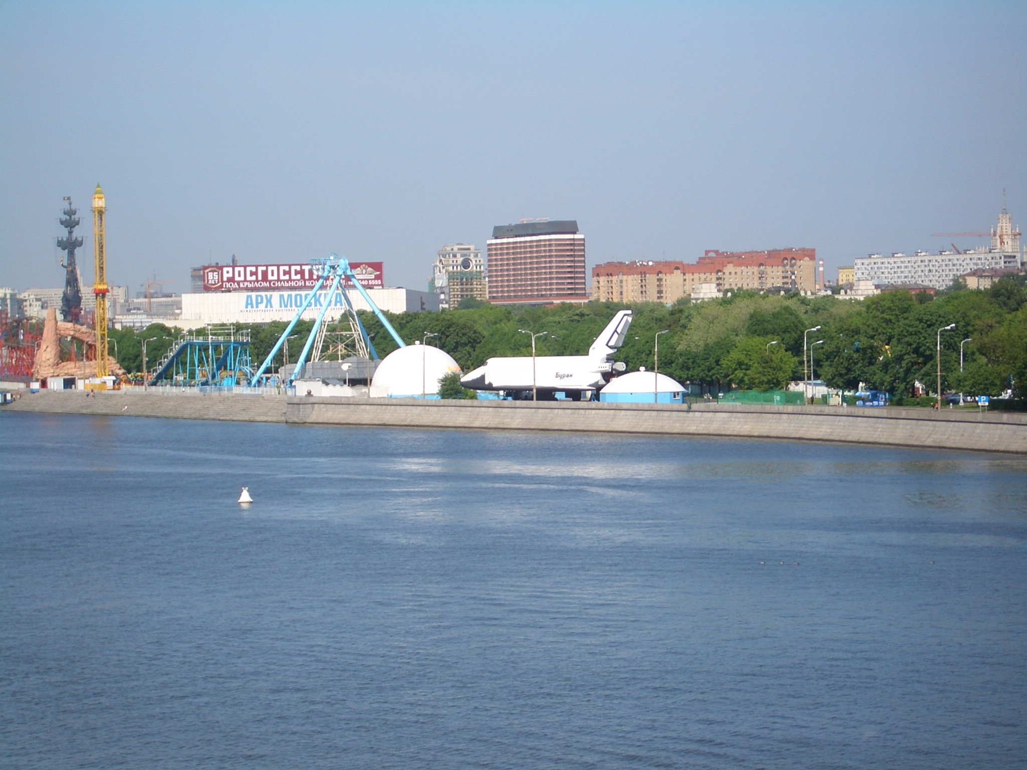 Buran shuttle mockup in Gorky Park.